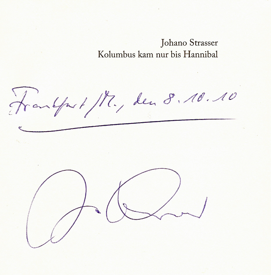 Autograph of Johano Strasser, German writer.